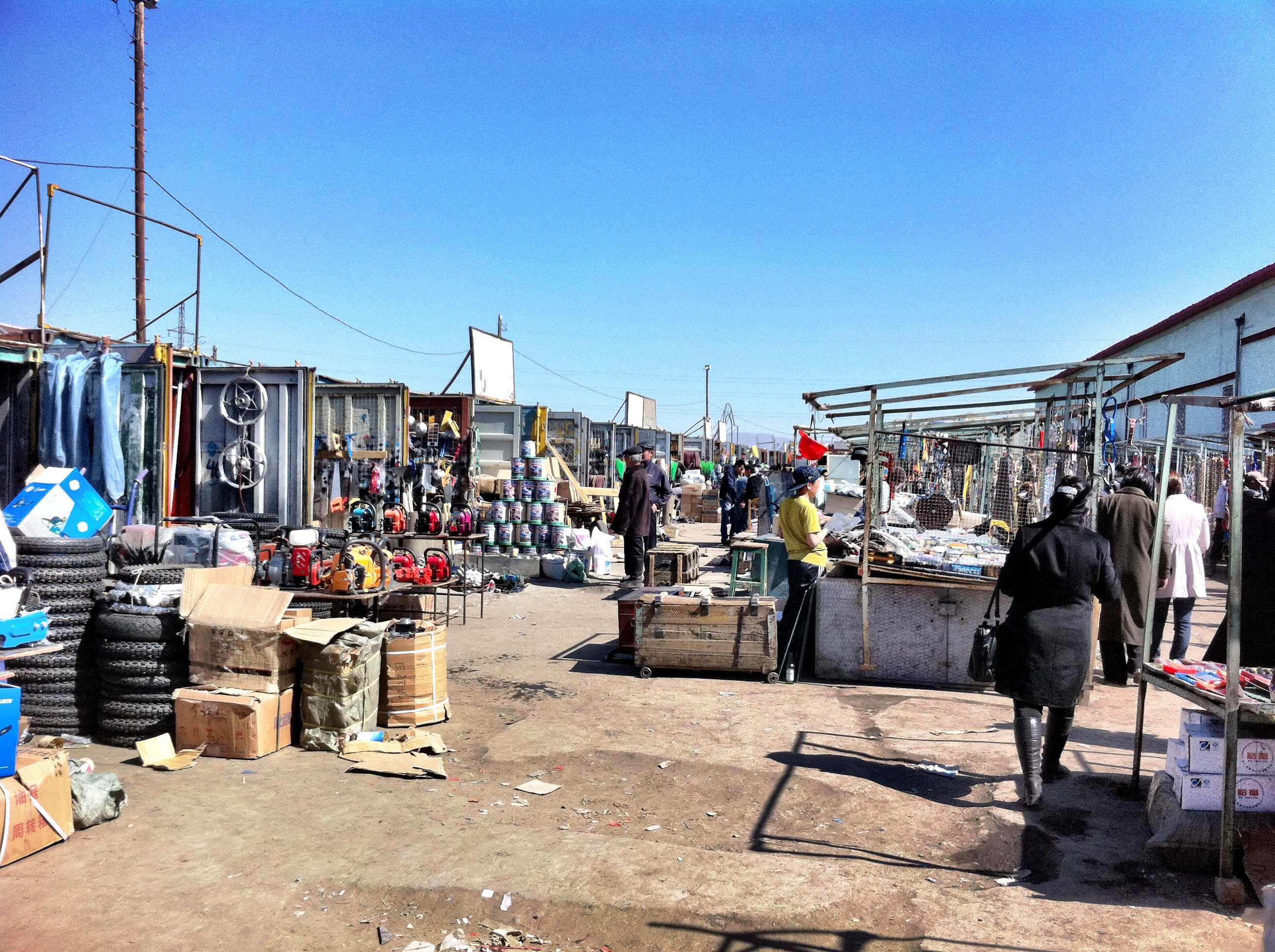 Ulaanbaatar (Ulan Bator), Mongolia.